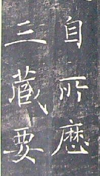 Detail of Rubbing from Sheng_Jiao_Xu Stele(ACE653, Sian, China): calligrahy by Chu_Suiliang(ACE596-658)